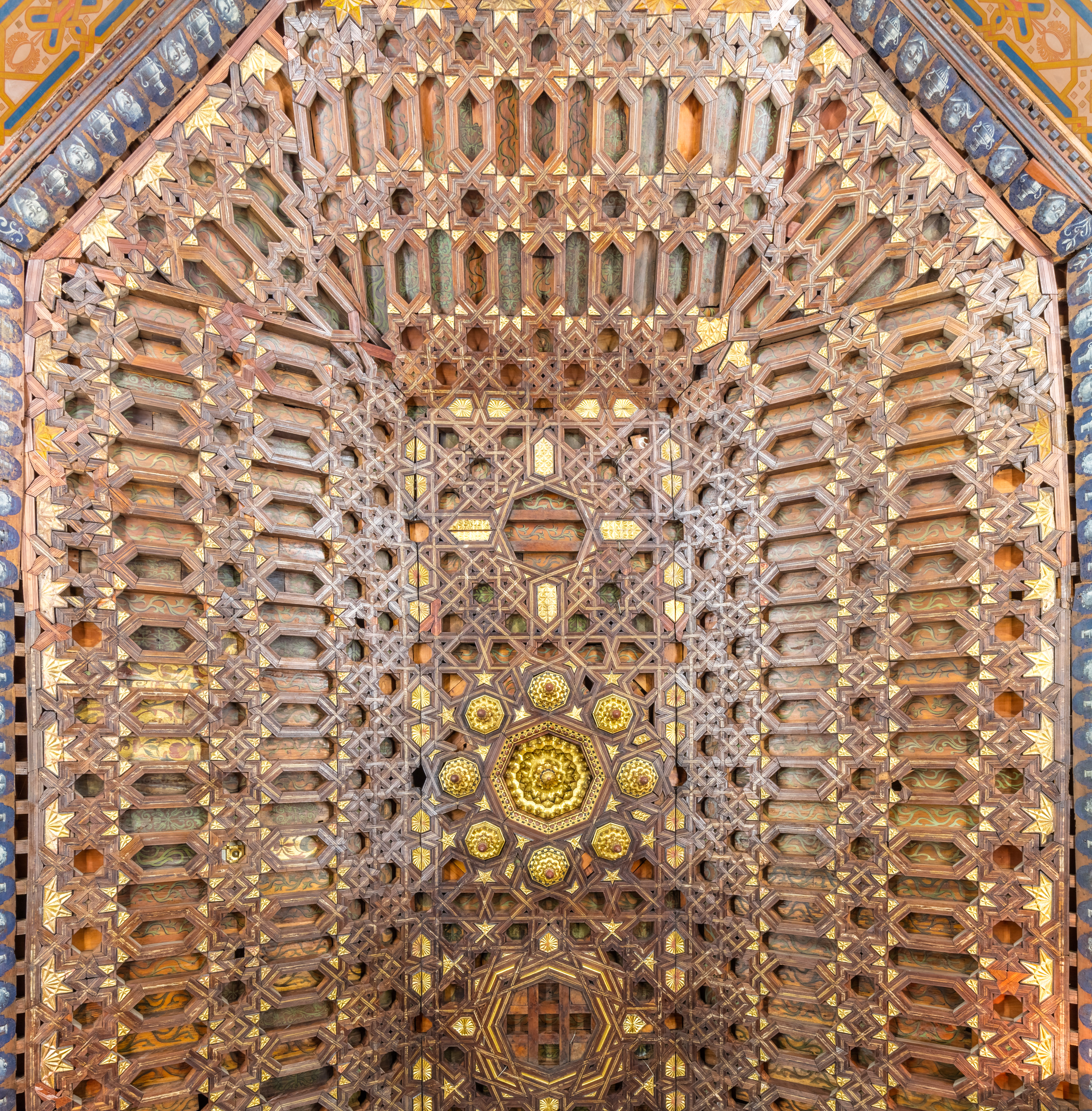 Church of San Francisco, Quito, Ecuador